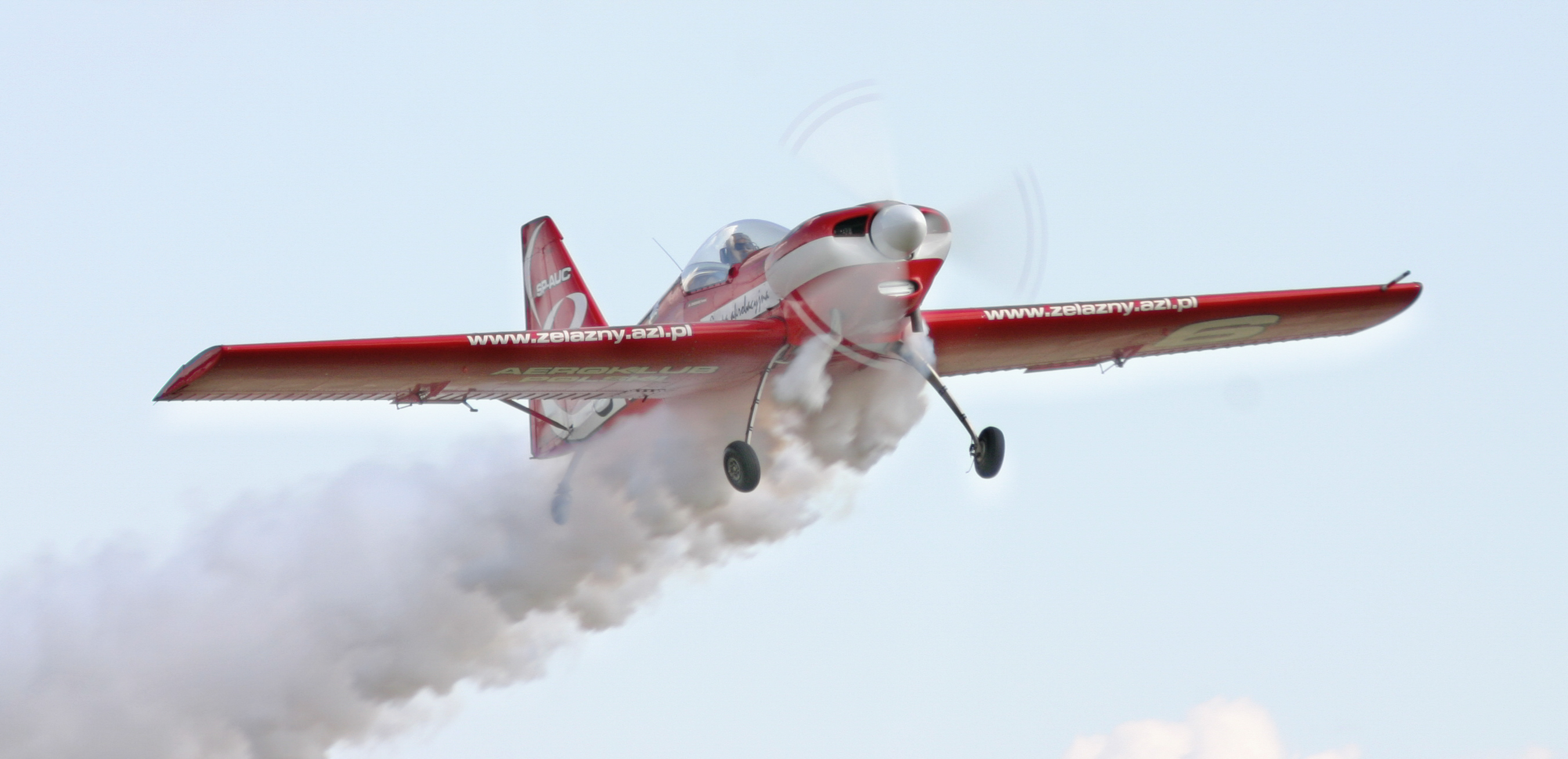 Aircraft Zlin Z-50 from AZL Żelazny during Góraszka Air Picnic 2007